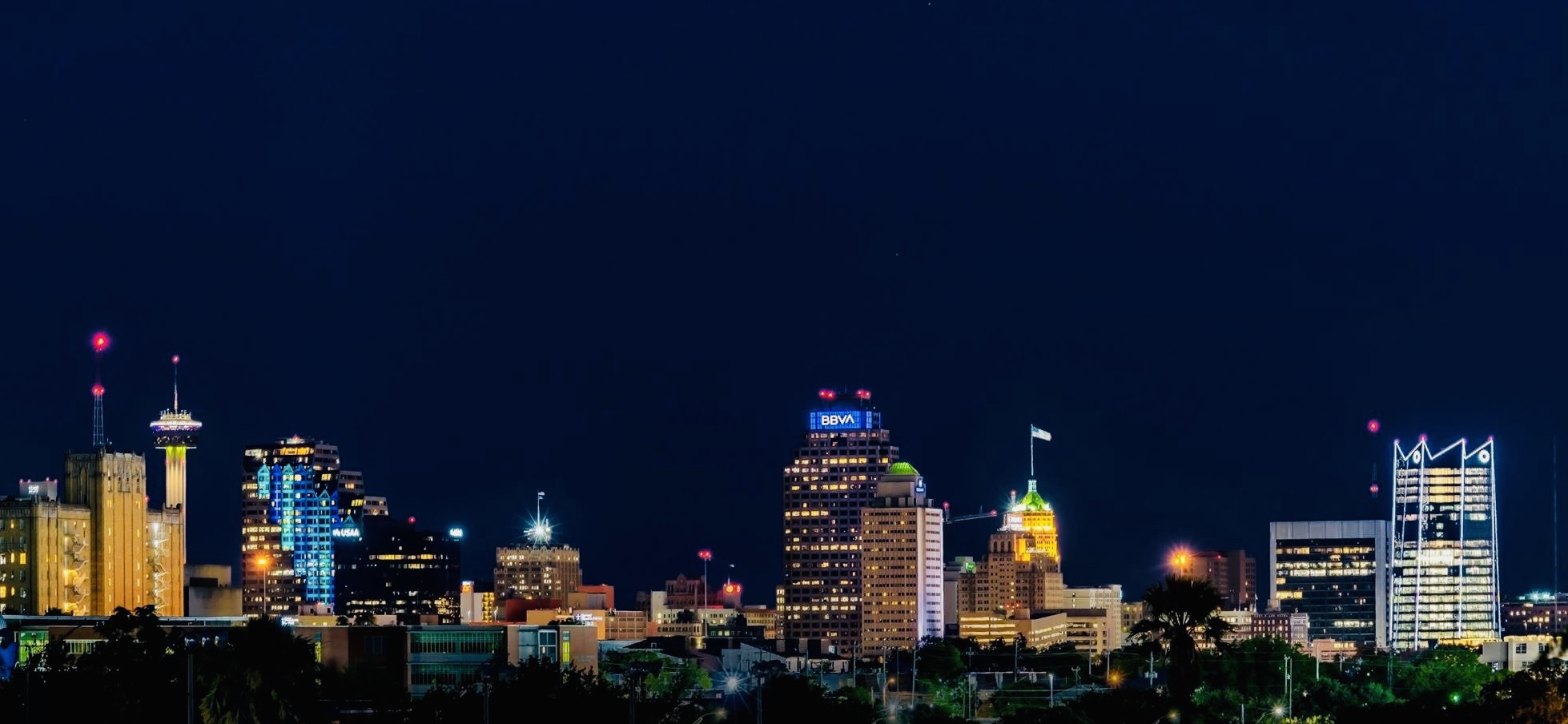 SA Skyline. 2020.